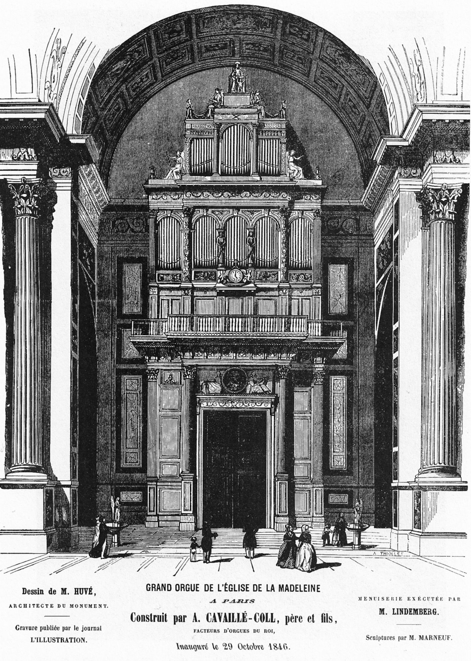 Organ of La Madeleine: Façade 1846